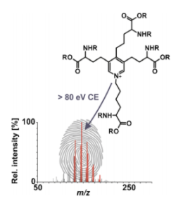 Desmosine MS